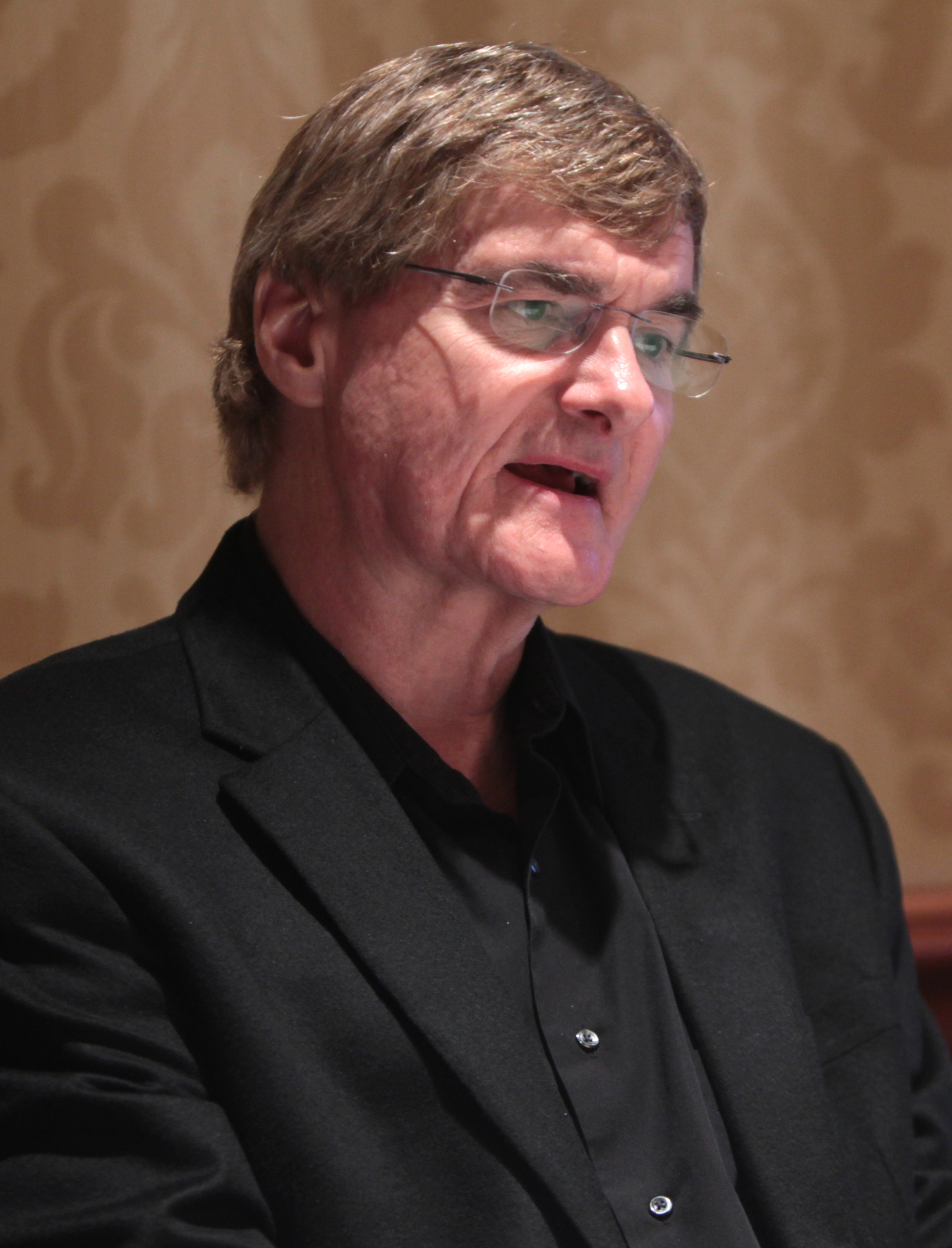 Ronald Bailey speaking at an event in Washington, D.C.